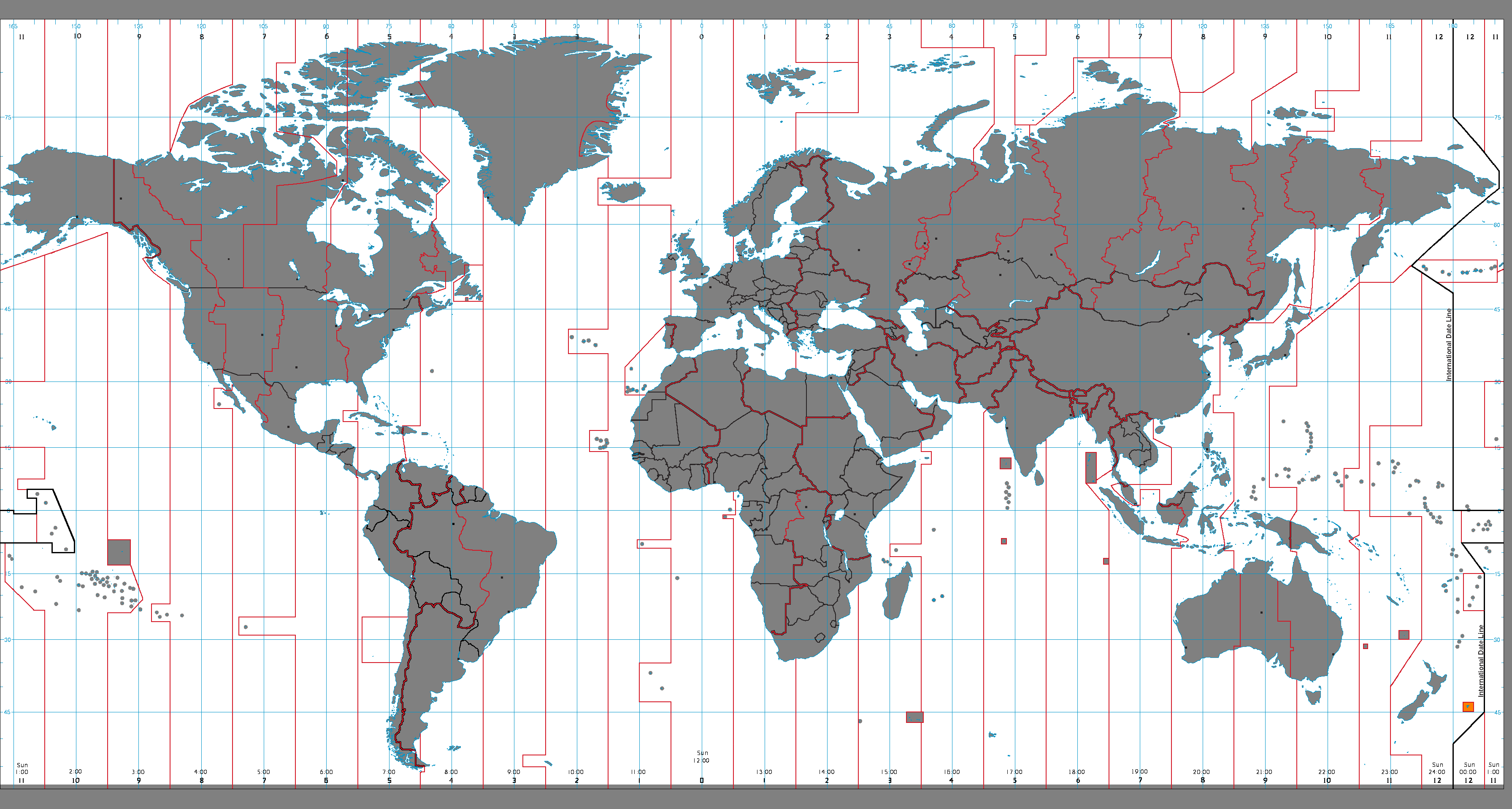 World map of time zones as of 2008, on the Miller Cylindrical Projection and with highlighted UTC-12:45 zone (small box around the Chatham Islands of New Zealand). UTC+12:45 Southern Hemisphere Winter/ Northern Summer